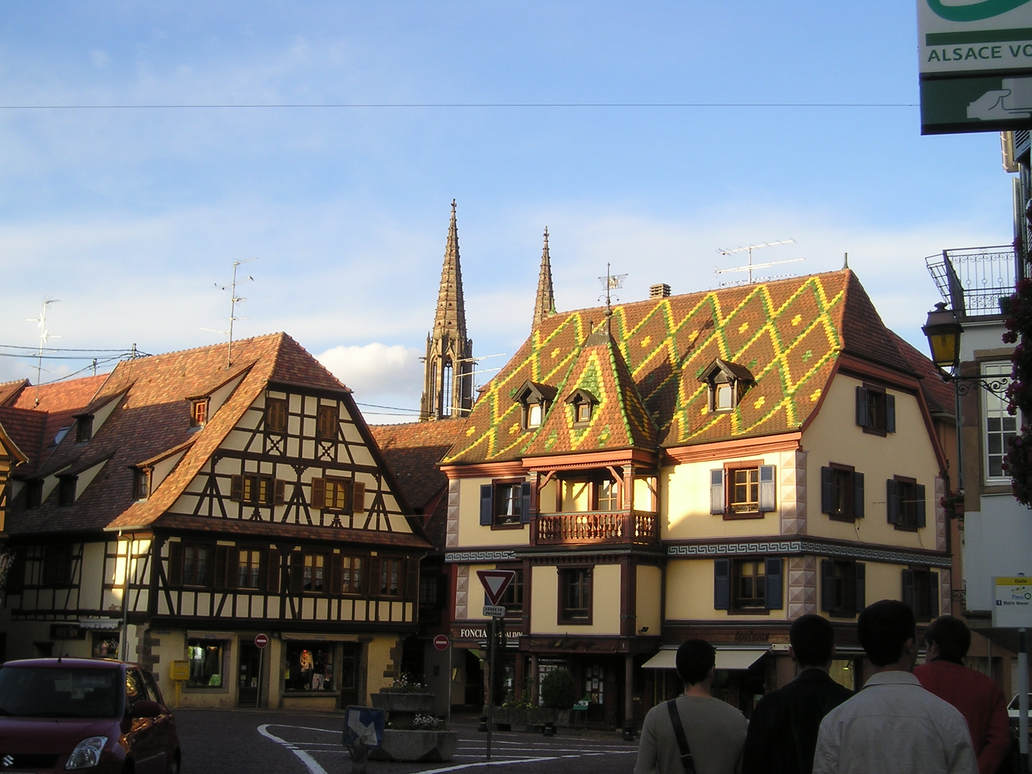 Picture of a roof of the city of Obernai in France. Took by Galano user in june 2006